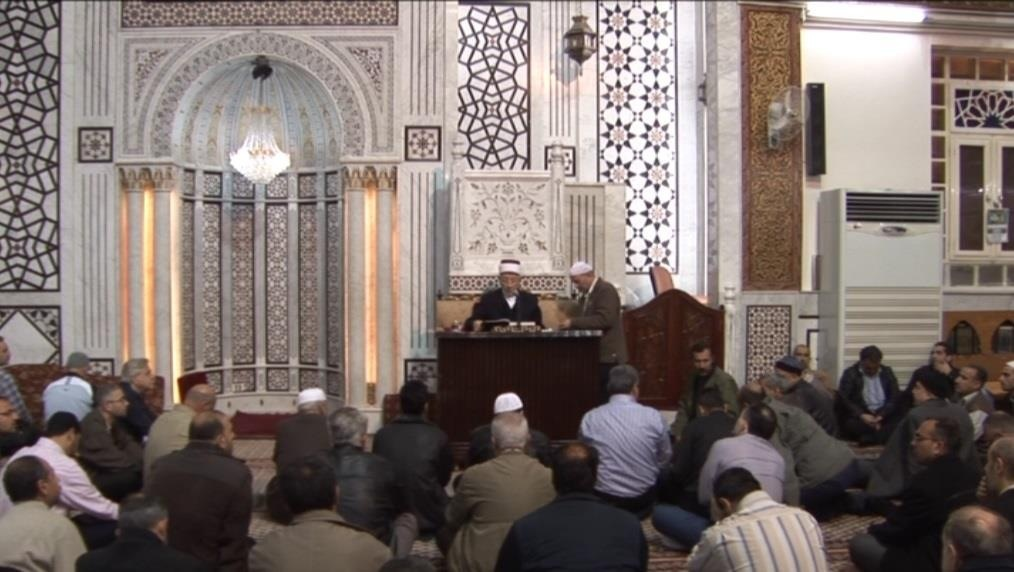 Dr. Mohammad al-bouti